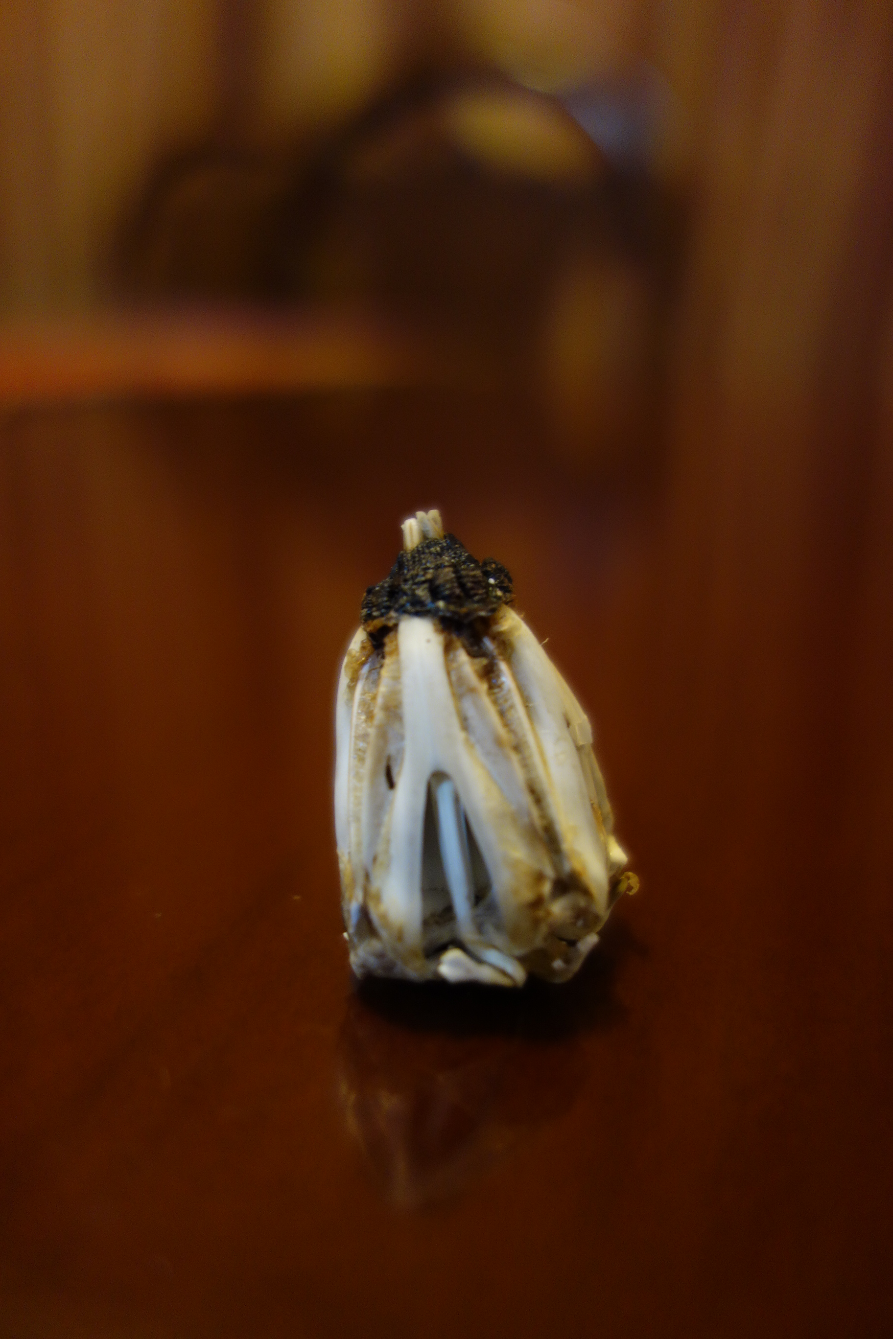 Aristotle's lantern extracted from a sea urchin, island of Melintang Kecil, Java Sea